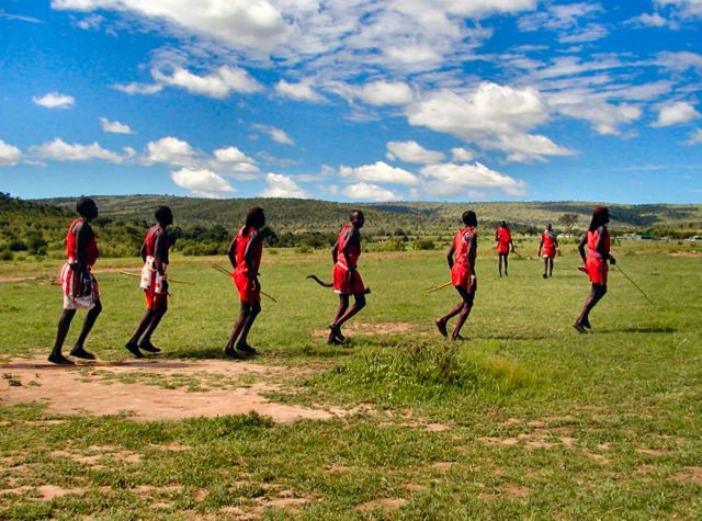 Hunters in Kenya.